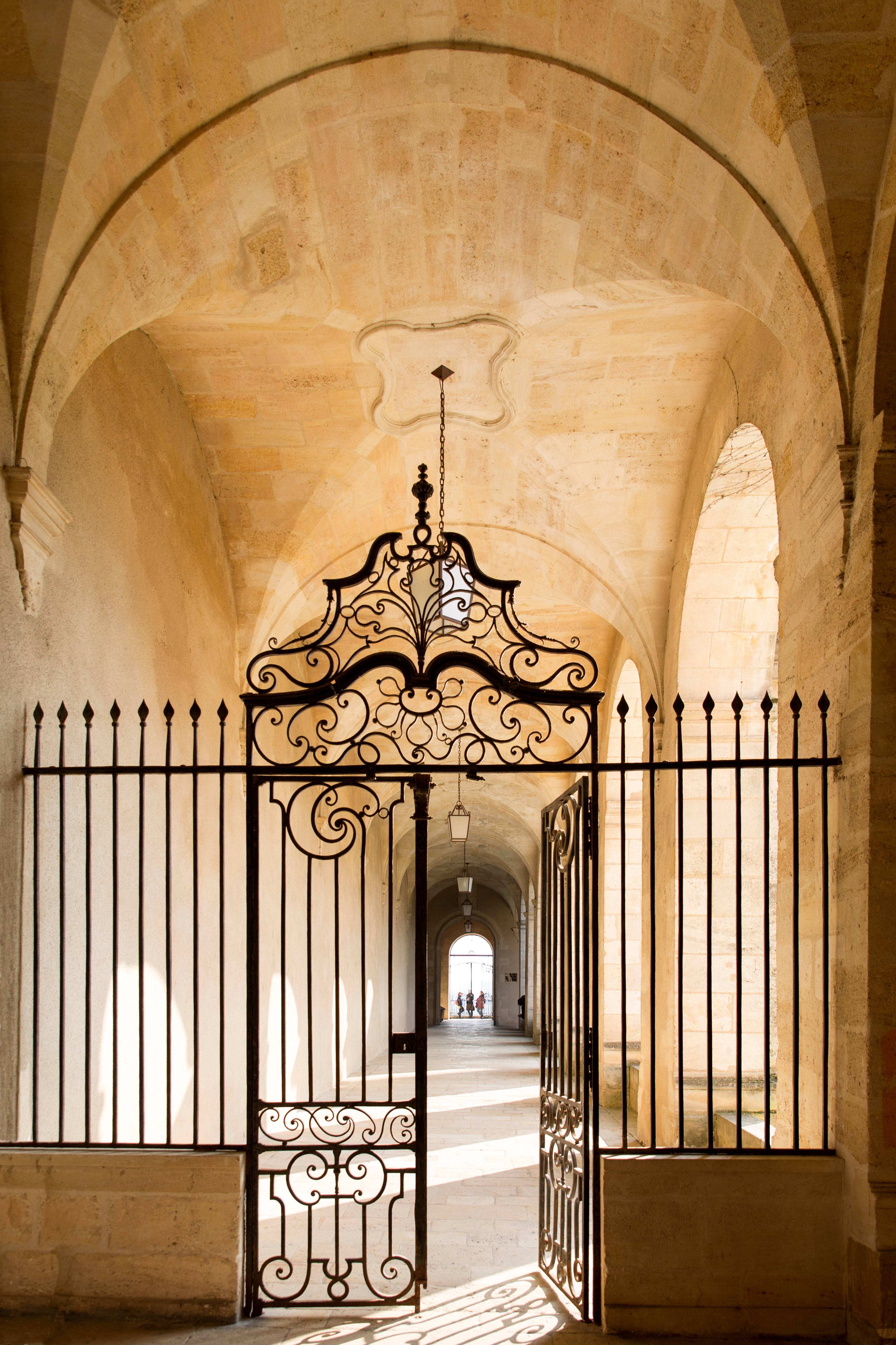 Grille d'accès au Prieuré.